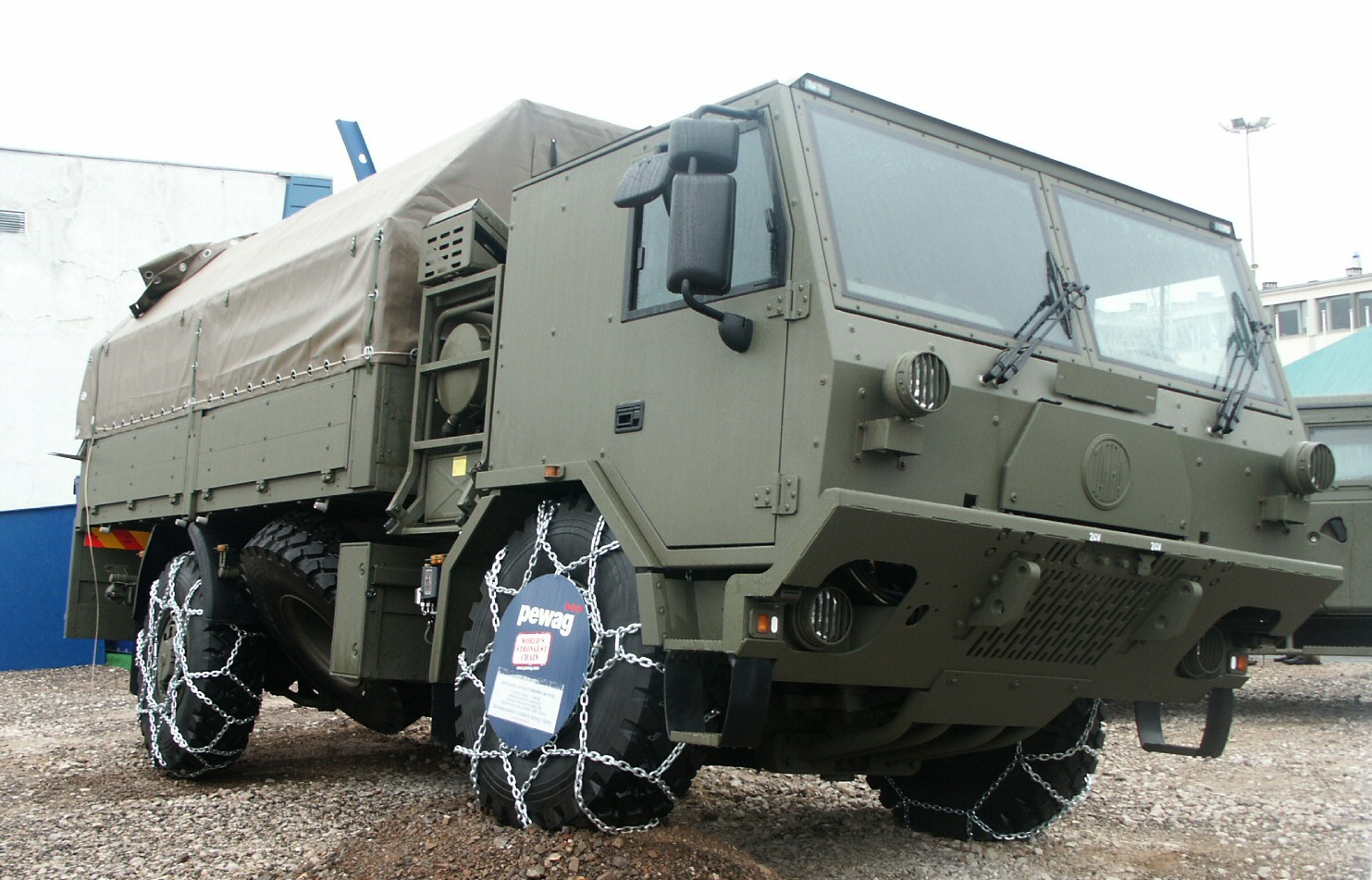 Tatra T815-7 780R59 military truck.